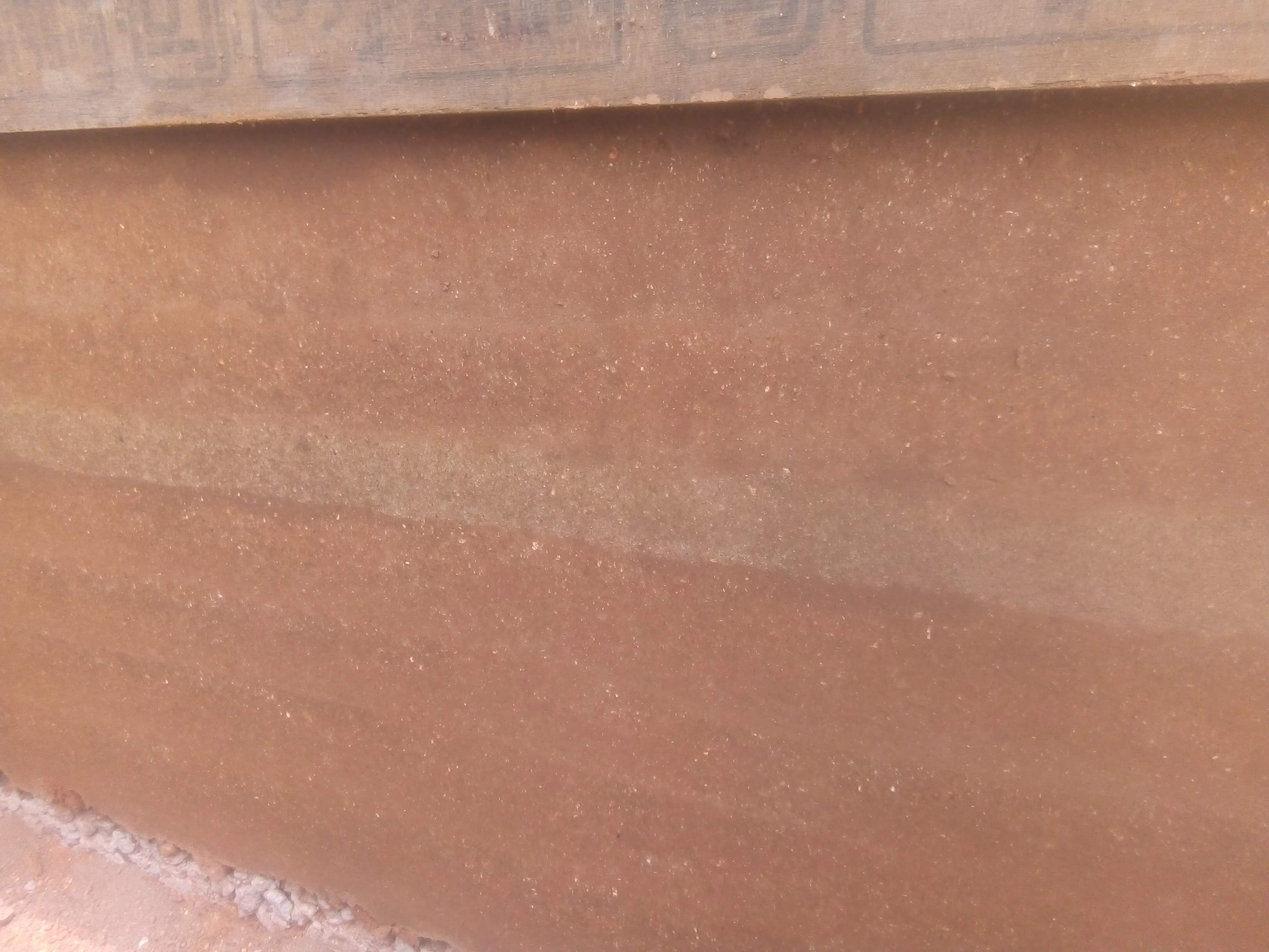 Rammed Earth wall surface straight after removal formwork